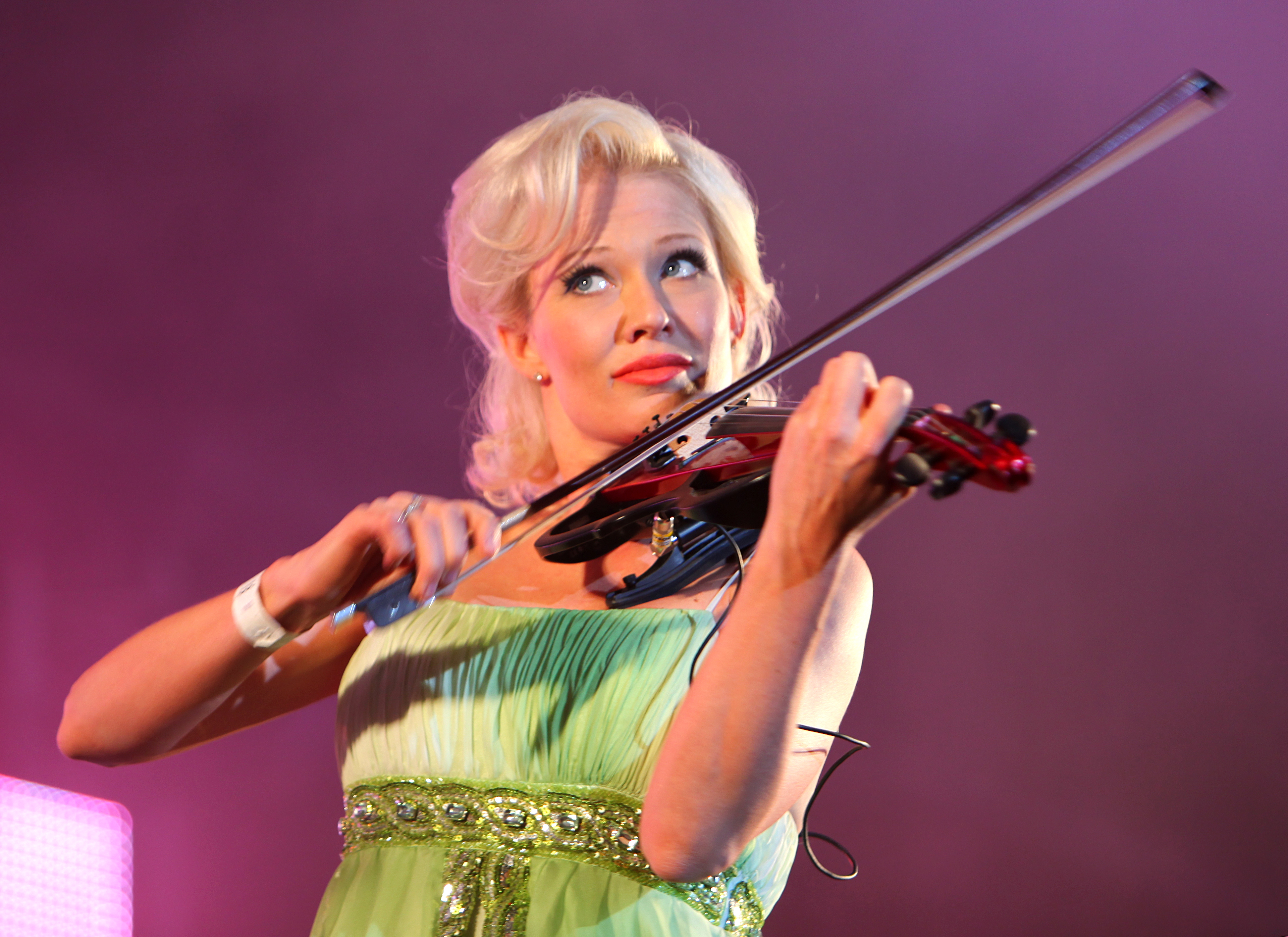 Linda Lampenius performing on Stockholm Pride Festival, August 2009